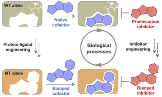 Cartoon of bump-and-hole engineering